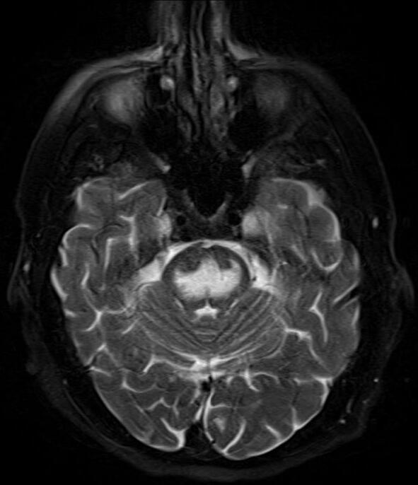 Axial fat saturated T2-Weighted MRI showing hyperintense signal in the central pons. The patient was an alcoholic admitted with a serum Na 101 who was treated with hypertonic saline. He had severe quadriparesis, and dysarthria.